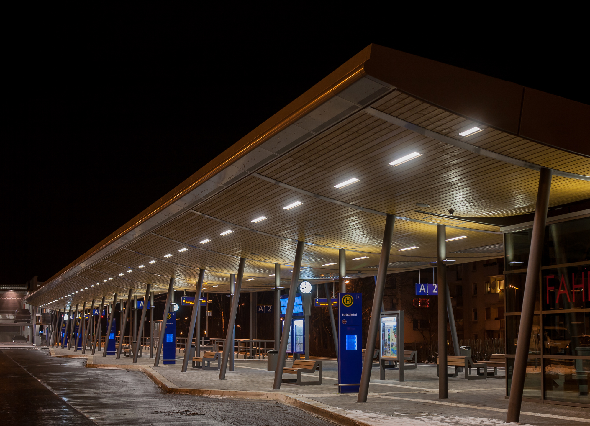 Eschwege - Train station of the city at night